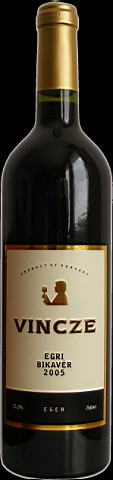 Hungarian wine, Bikavér from Eger